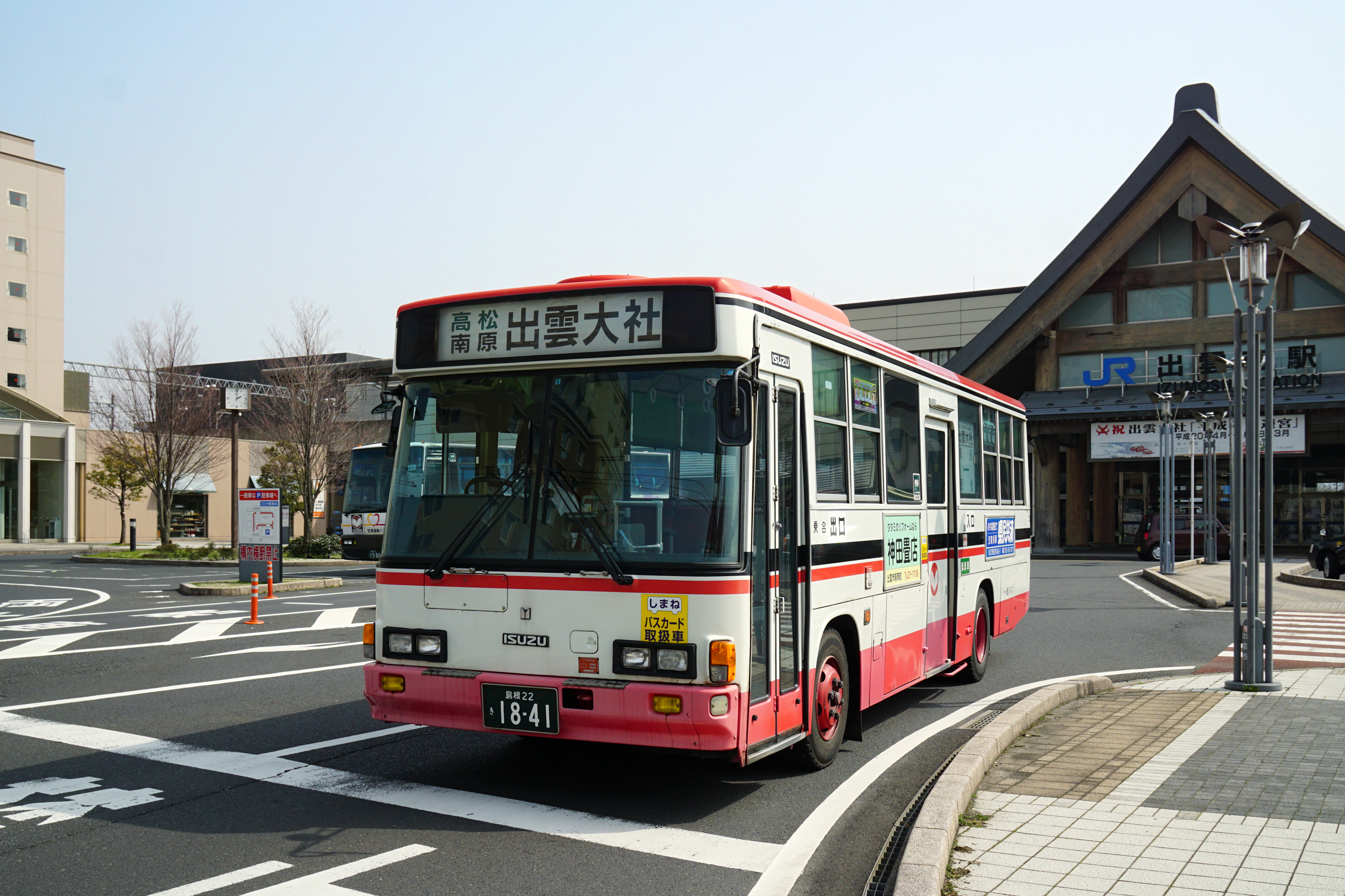 Izumoshi_Station in Izumo, Shimane prefecture, Japan